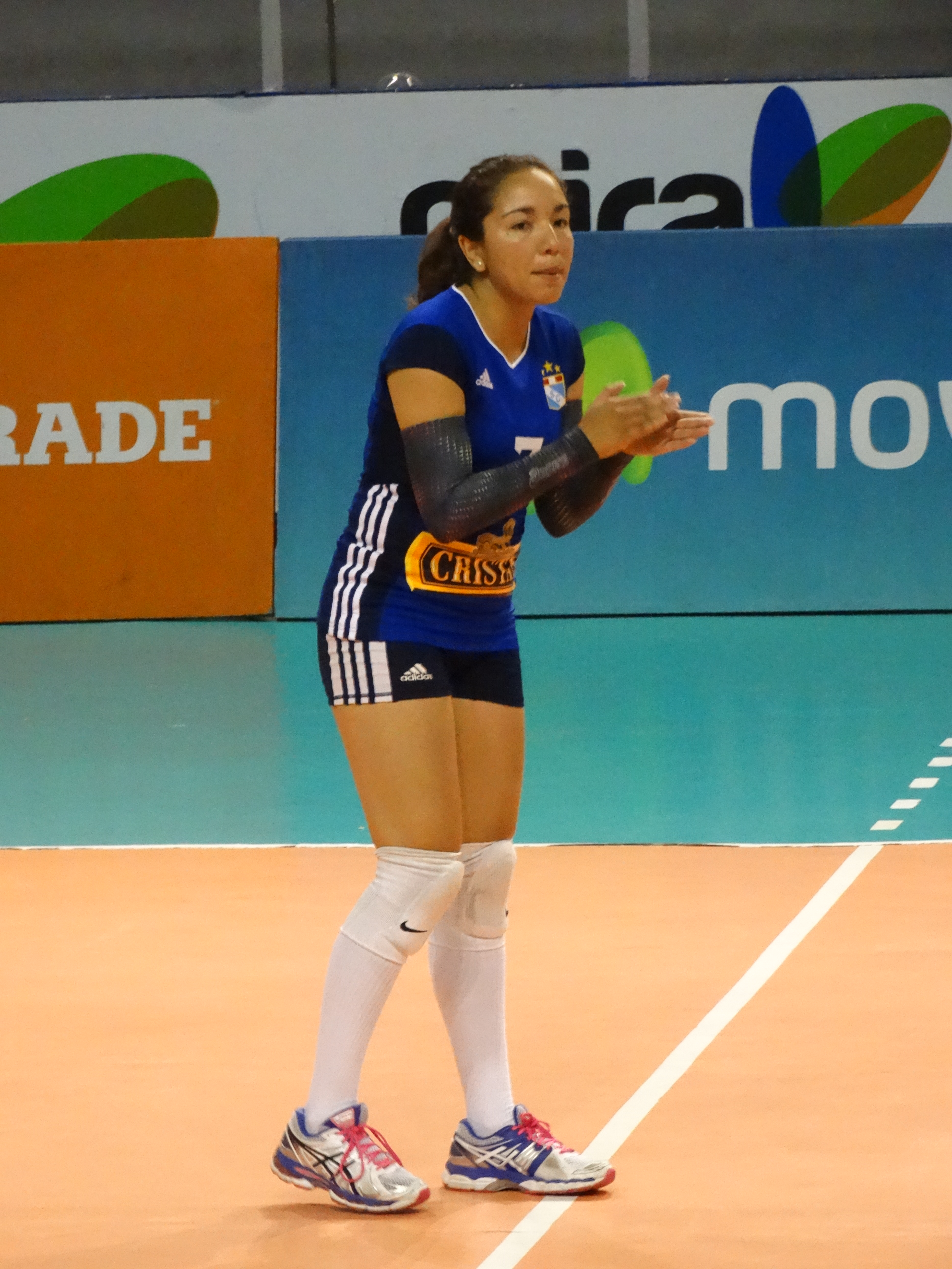 Peruvian volleyball player Susan Egoavil